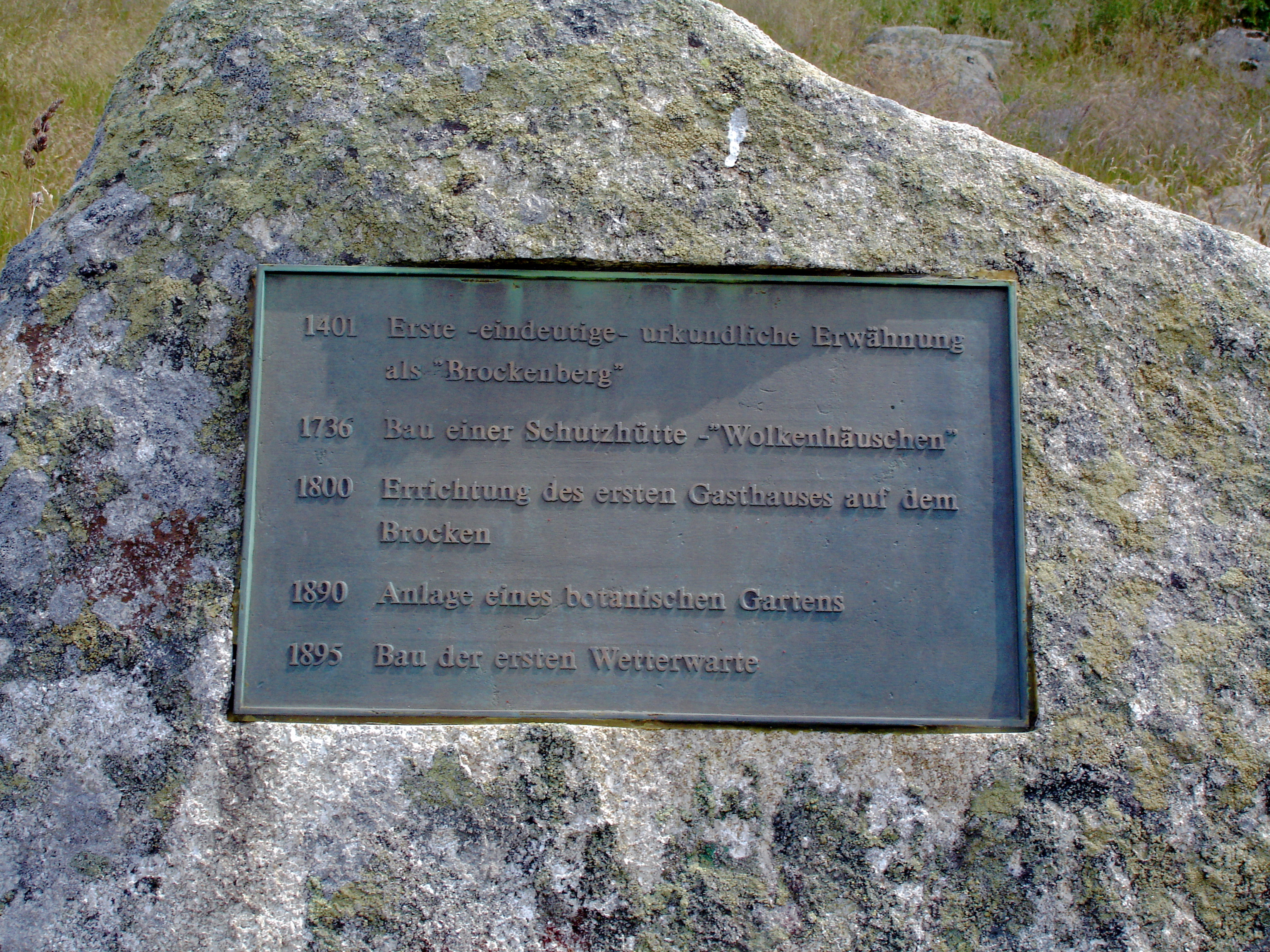 Badge of the Brocken history on the Brocken in Saxony-Anhalt, Germany